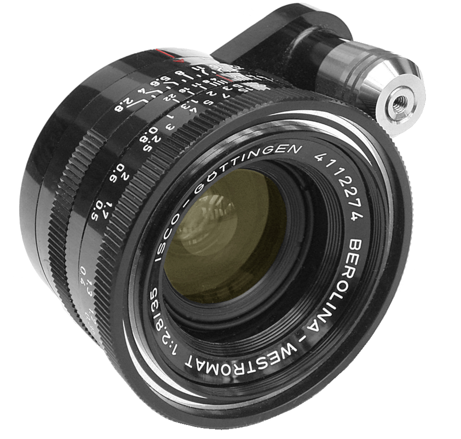 ISCO Berolina Westromat 2,8-35